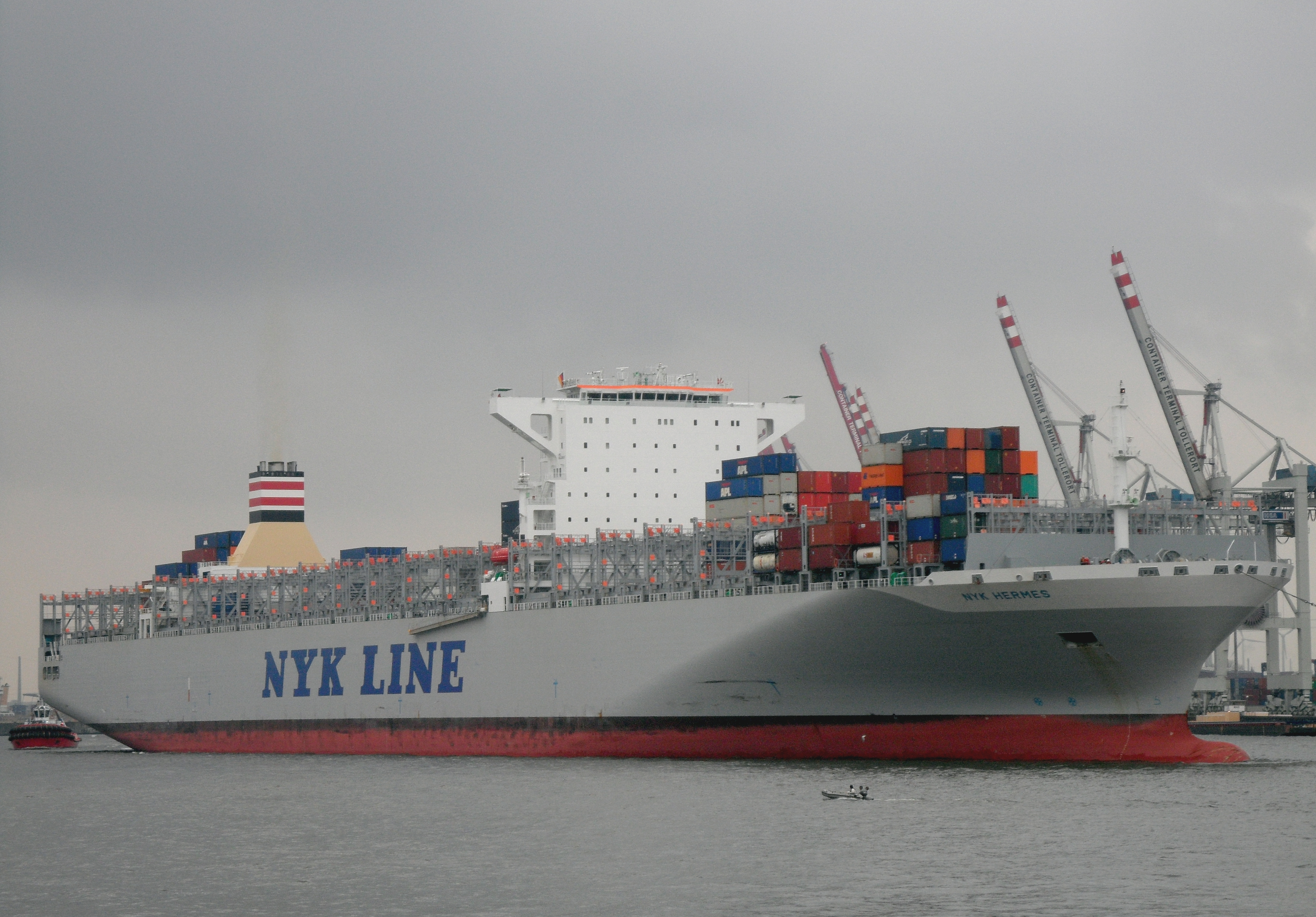 Container ship NYK Hermes front of the terminal Tollerort, Hamburg in March 2014